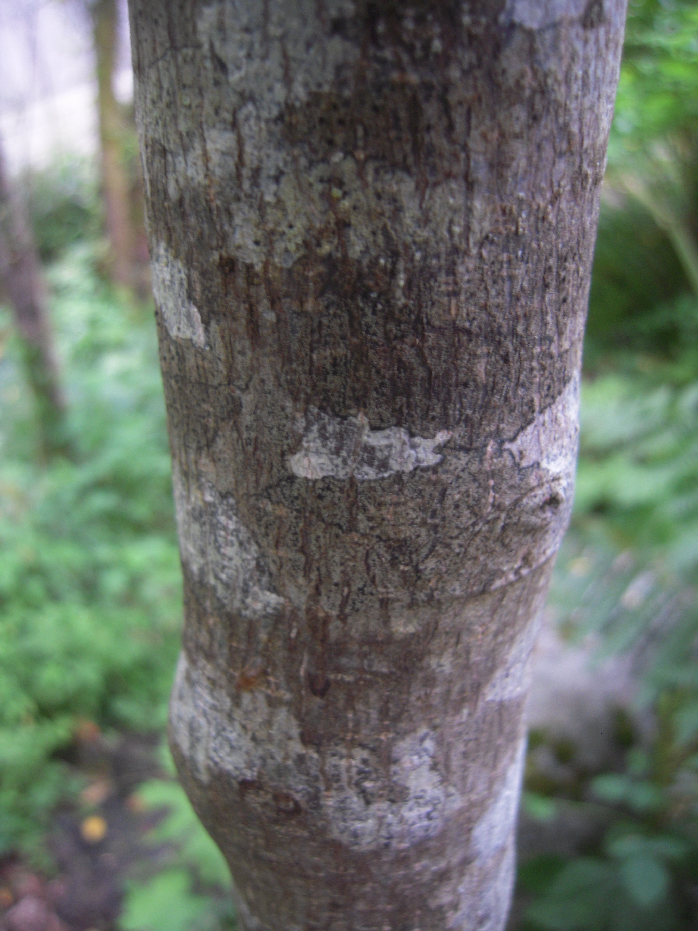 Cascara (Rhamnus purshiana) bark, which is used medicinally for its powerful laxative effect. Photo taken at the Evergreen State College Longhouse Ethnobotanical Garden.